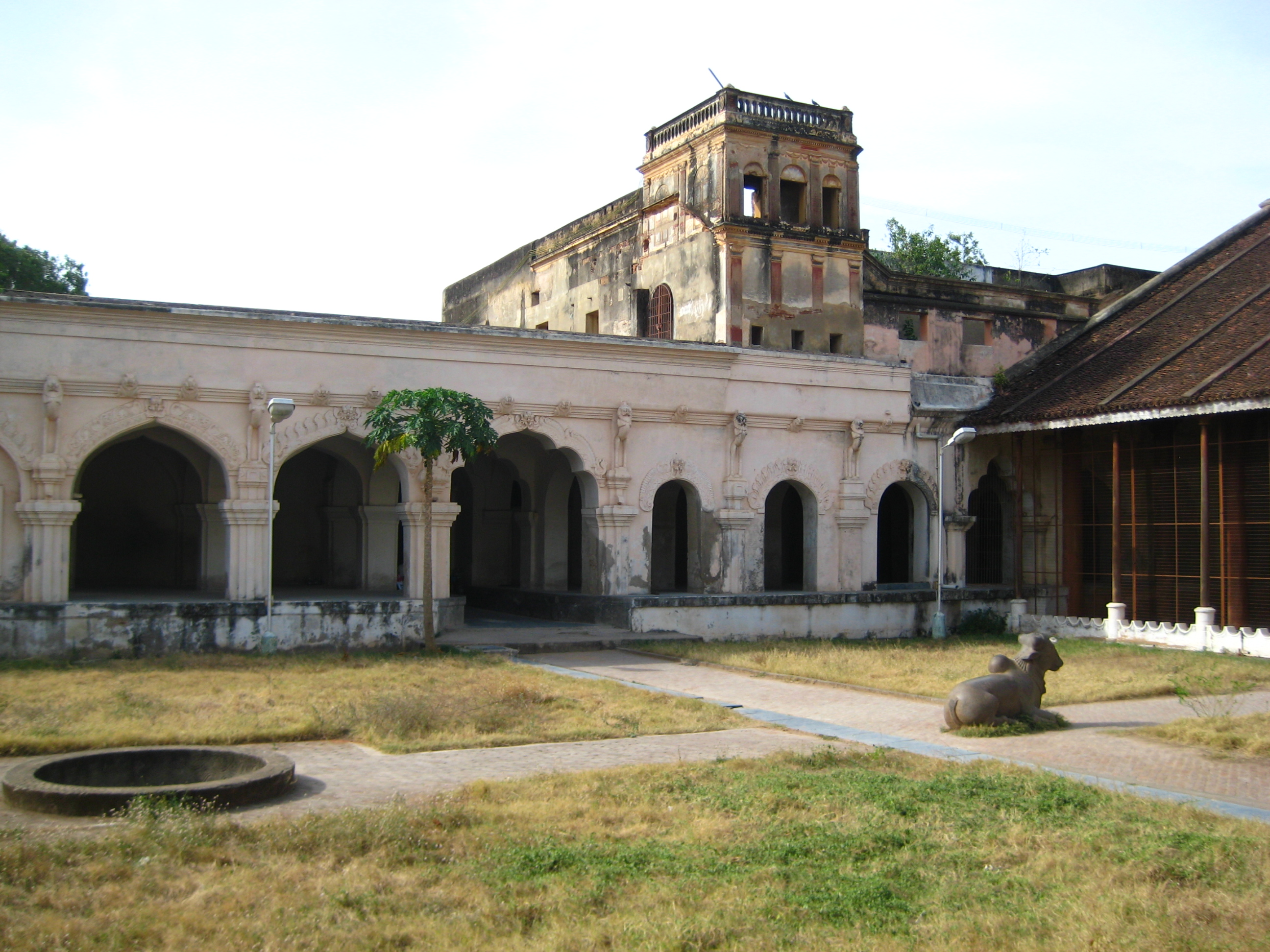 Tanjavur/Tanjore Nayak palace